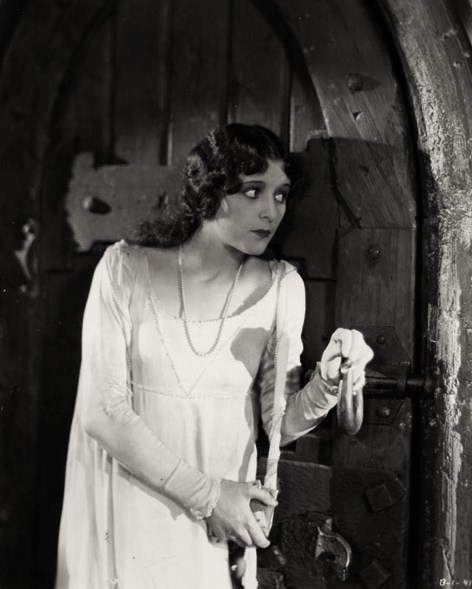 Marceline Day in The Beloved Rogue (1927) - publicity still (cropped : see source)